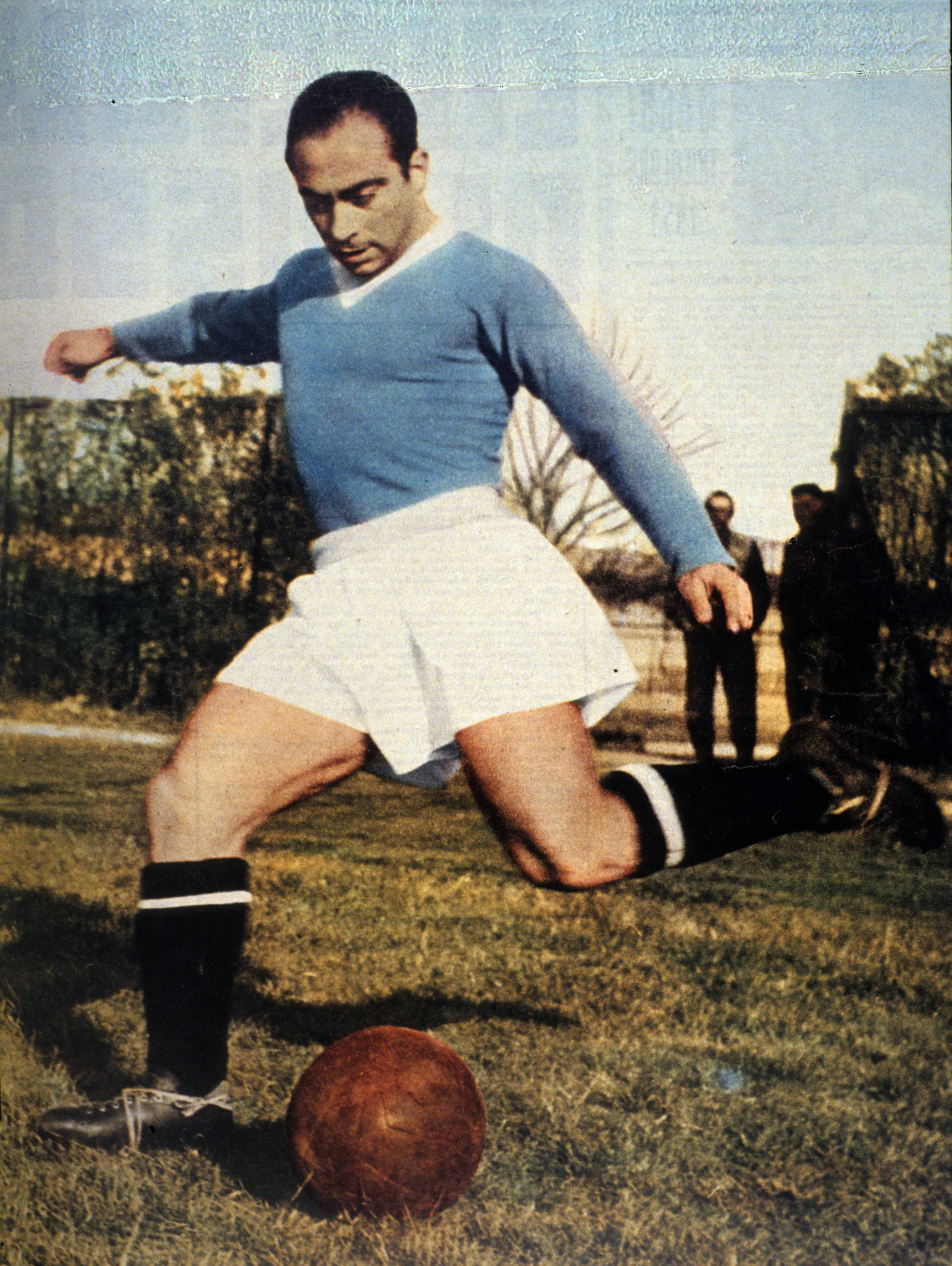 Italian-Argentines footballer Bruno Pesaola in action with A.C. Napoli in the 1950s.